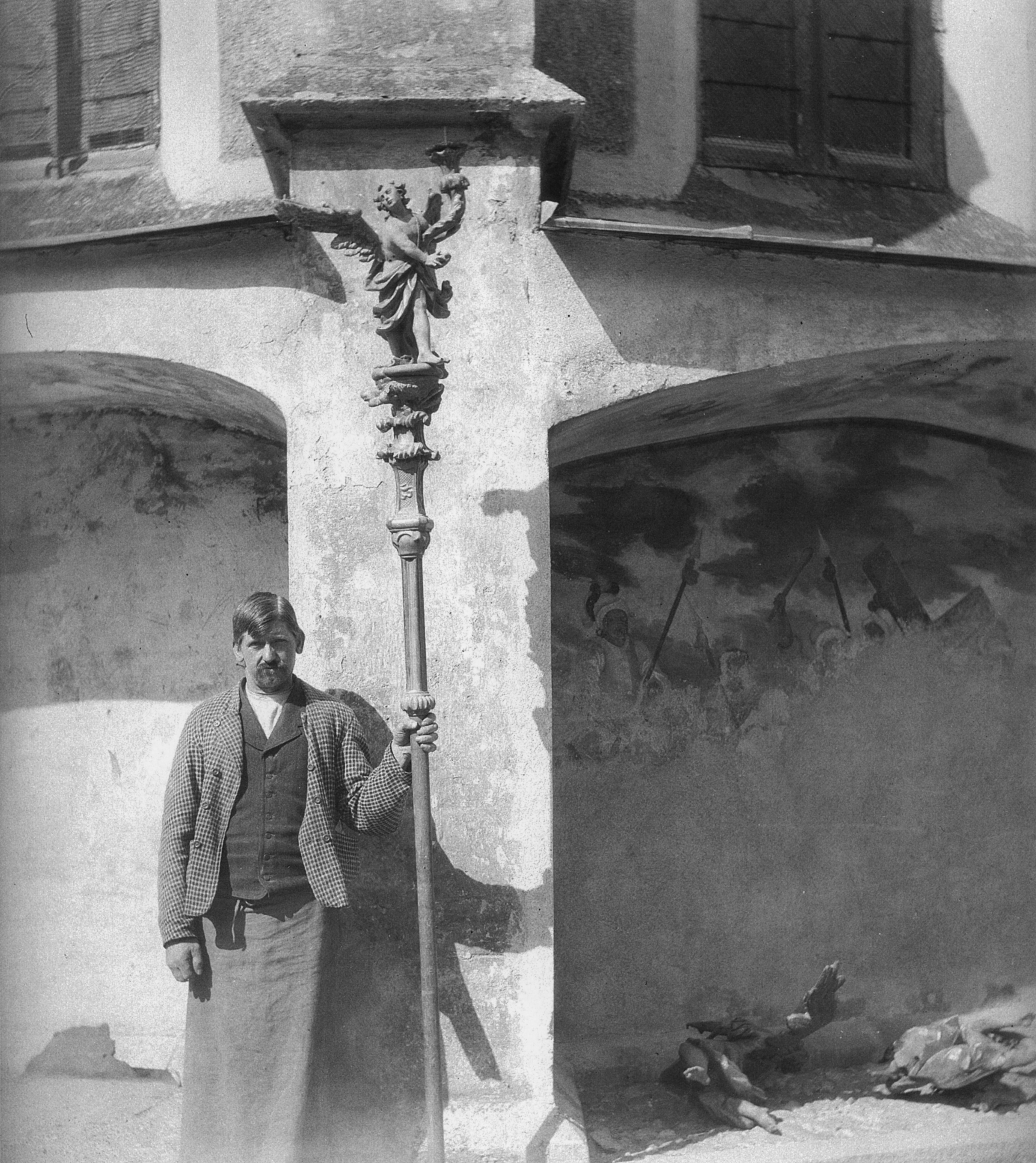 Petschar, Friedlmeier, Steiermark in alten Fotografien, Ueberreuther Verlag Wien. Scanprojekt Community Projektbudget 2012 This scan or this PDF-file was created within the GLAM-project Bookscanning, supported by Wikimedia Germany and Wikimedia Austria as a part of the community-project to capture books, documents and pictures which are not eligible to copyright or for which the copyright has expired. This document describes or depicts an object which is located in Austria today. Texts are written German language. Send requests for uncompressed scans to Hubertl. This work is in the public domain in its country of origin and other countries and areas where the copyright term is the author's life plus 100 years or less. You must also include a United States public domain tag to indicate why this work is in the public domain in the United States. This file has been identified as being free of known restrictions under copyright law, including all related and neighboring rights.